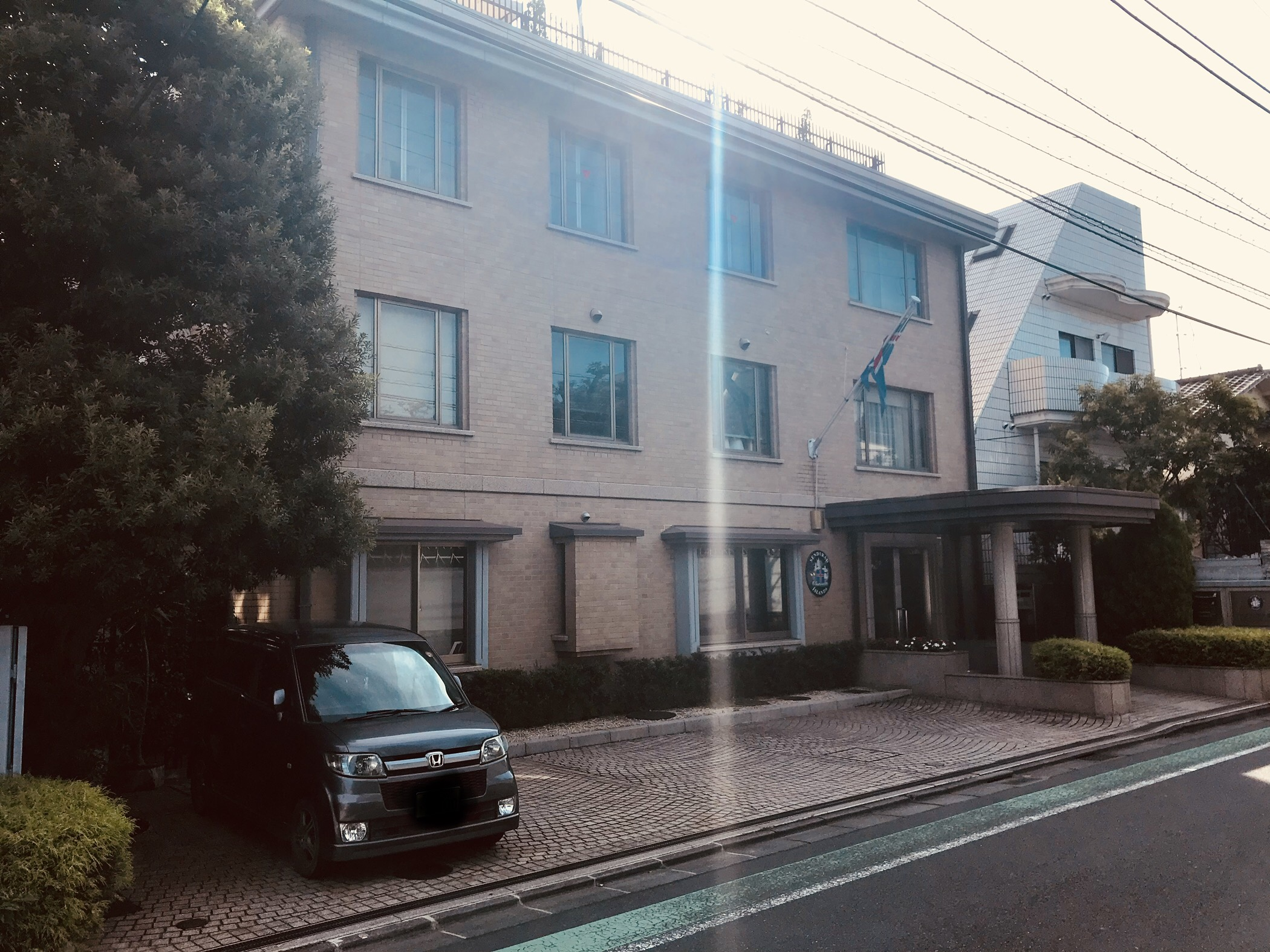 Embassy of Iceland in Tokyo, Japan